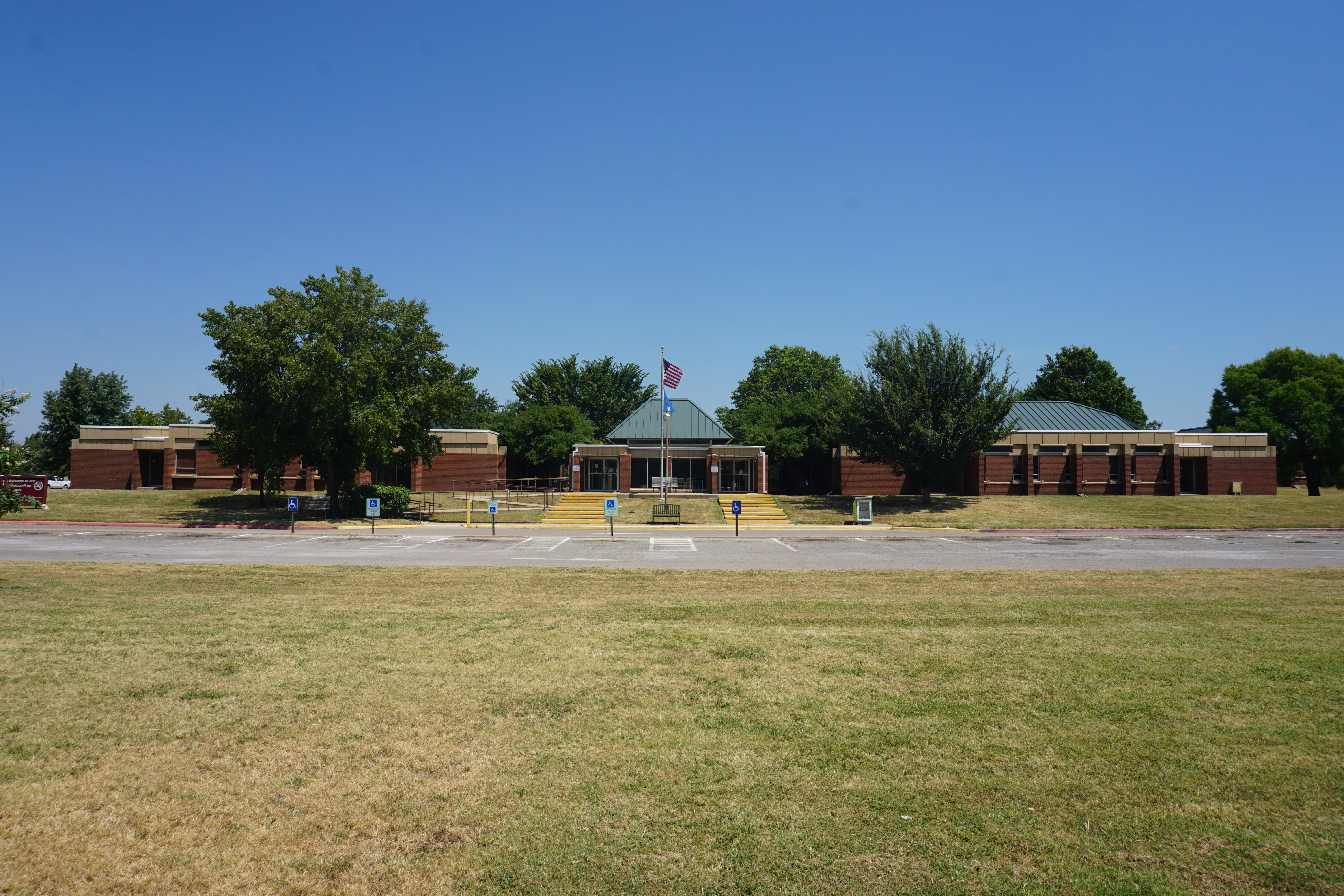 The Central Oklahoma Community Mental Health Center in Norman, Oklahoma (United States).